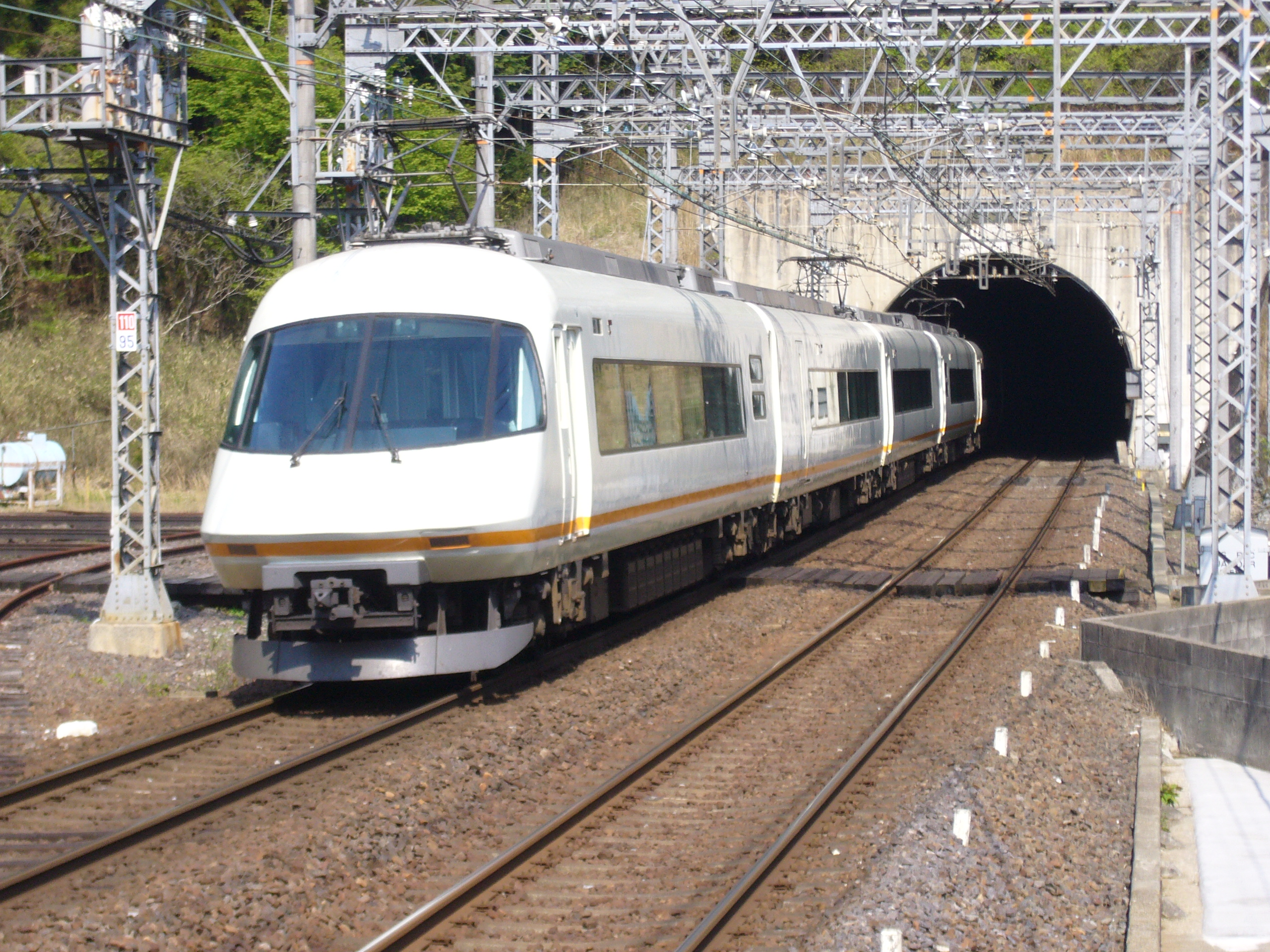 This is a picture of Shin-aoyama tunnel.Shin-aoyama tunnel is between NISHI-AOYAMA station and HIGASHI-AOYAMA station.I took this picture at NISHI-AOYAMA station.